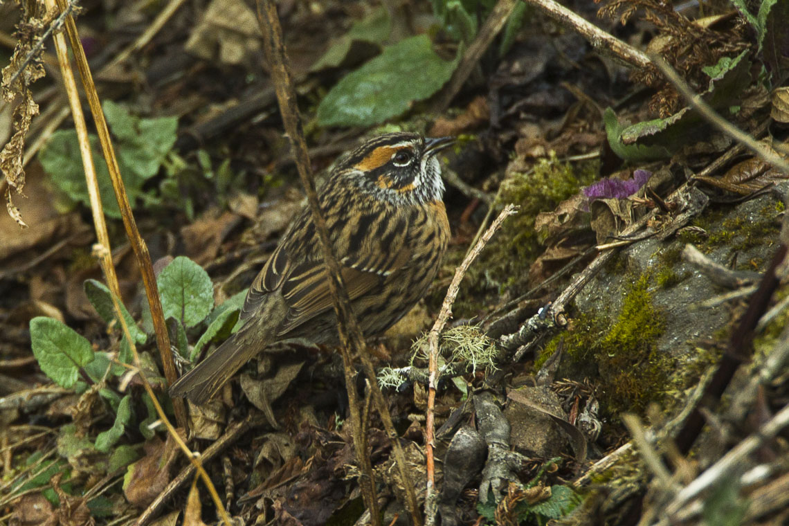 Rufous-breasted Accentor - Bhutan_S4E8176